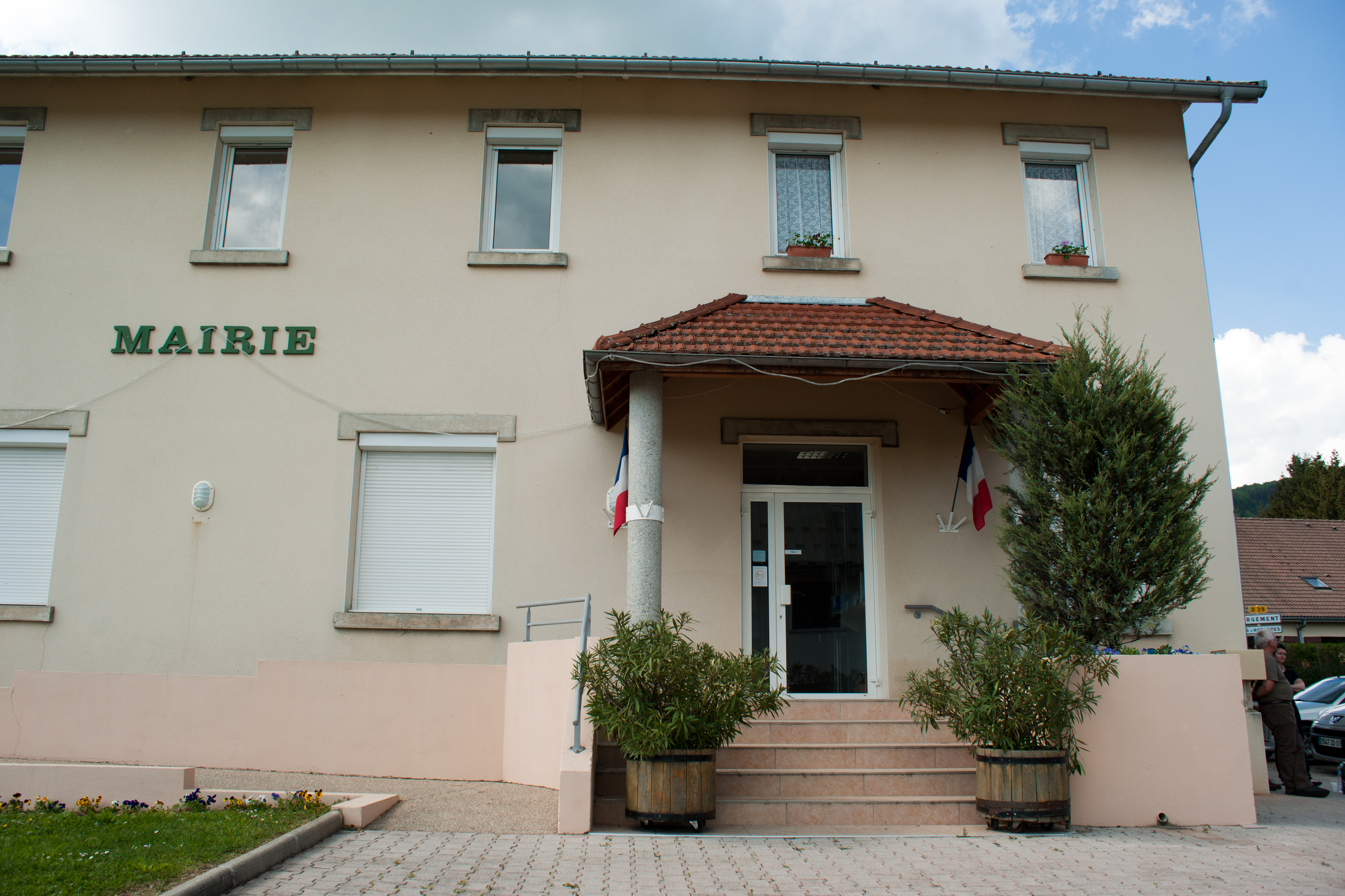 Townhall of Hotonnes, France.